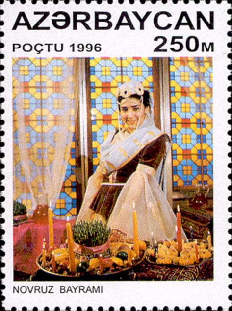 Azerbaijan woman at holiday table. Azerbaijan stamp of 1996. Novruz Bairam.